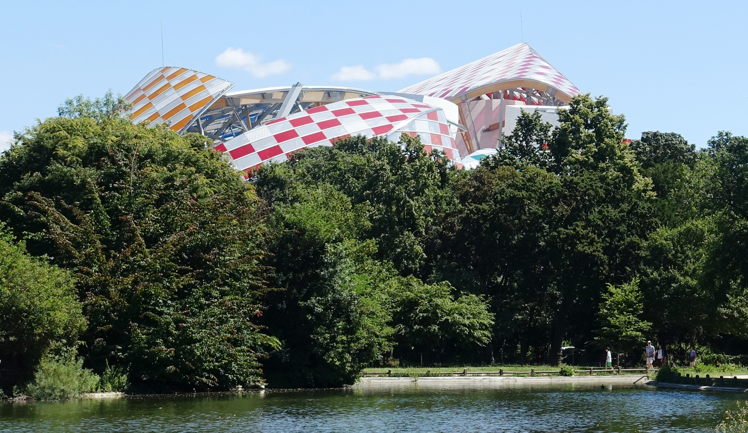 Part of the roof of the Fondation Louis Vuitton @ Mare Saint-James @ Bois de Boulogne @ Paris